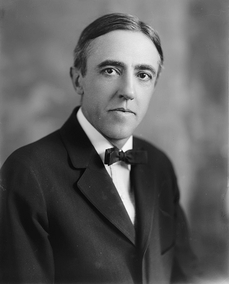 Stanley E. Bowdle, congressman from Cincinnati, Ohio.